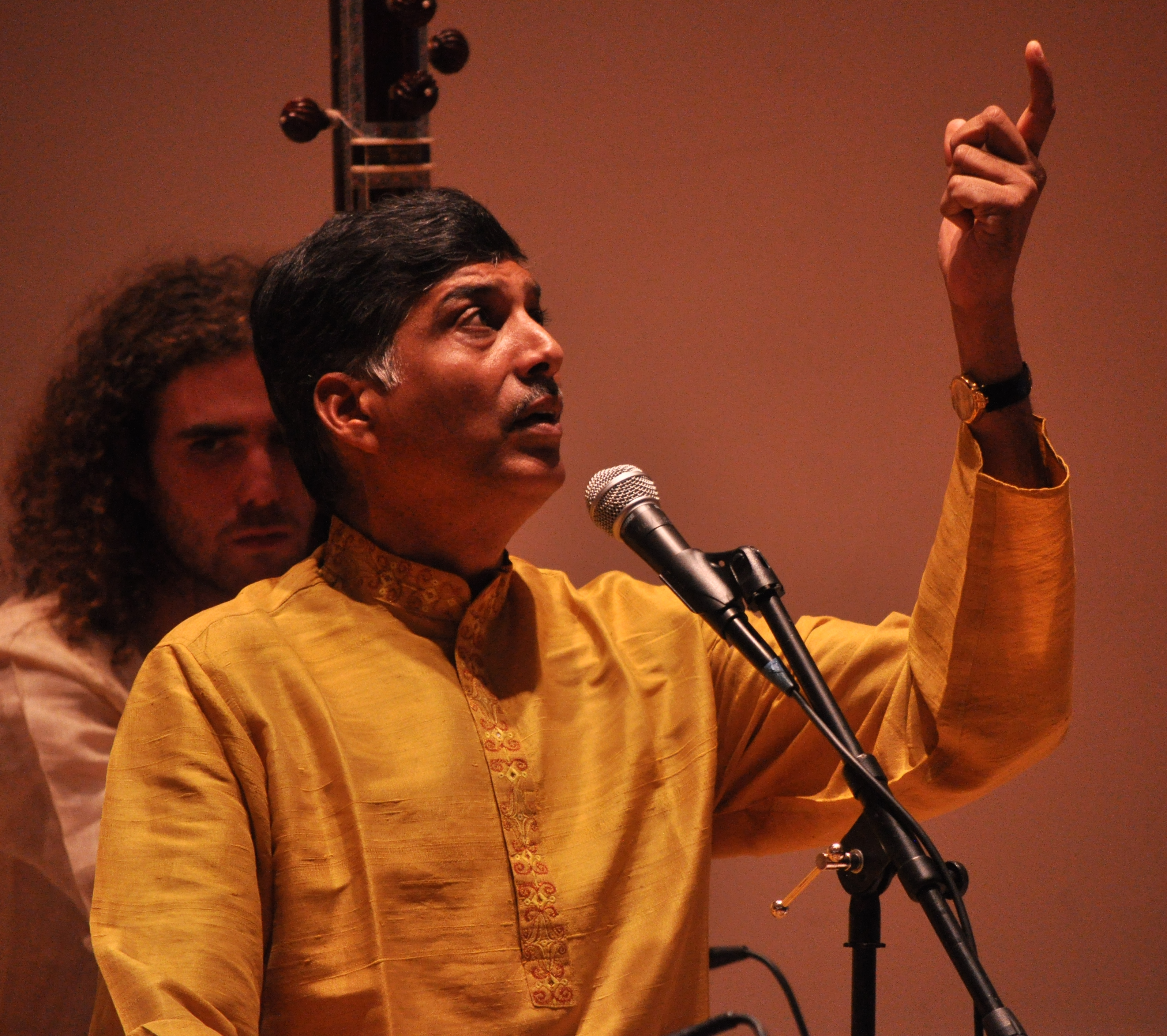 Ramakant Gundecha of the Gundecha Brothers, performing at the Baha'i Center in Bellevue, Washington, USA.